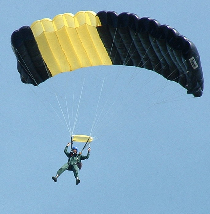 Parachutes of typo Wing.